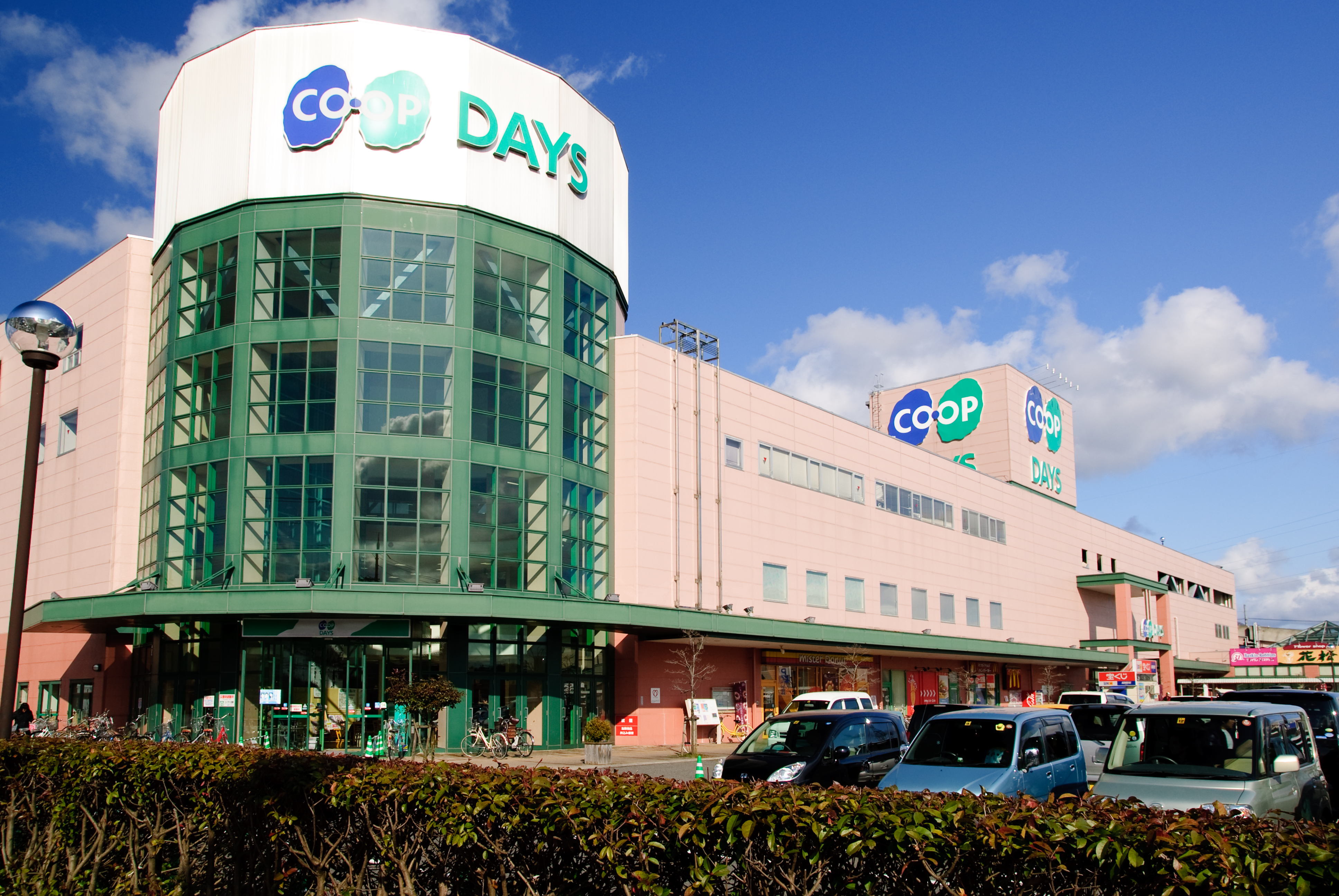 Shopping Center Coop Days Toyooka